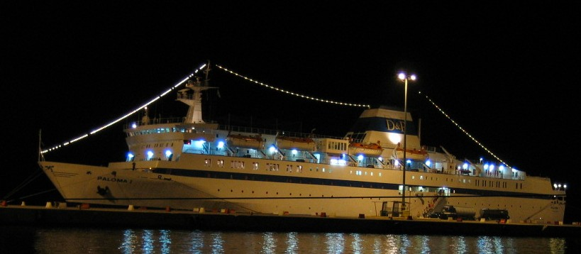 Cruiseship MS Paloma I IMO Number: 7625794 MMSI Number: 375392000 Callsign: J8YC2